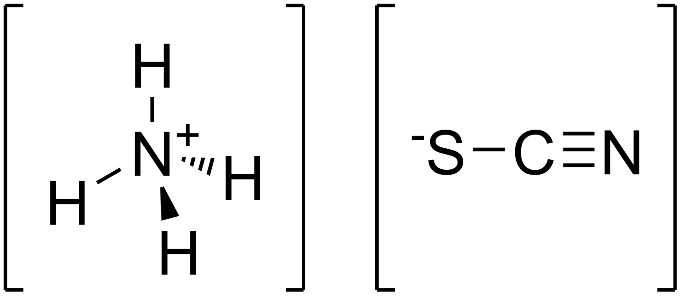 Chemical structure of ammonium thiocyanate